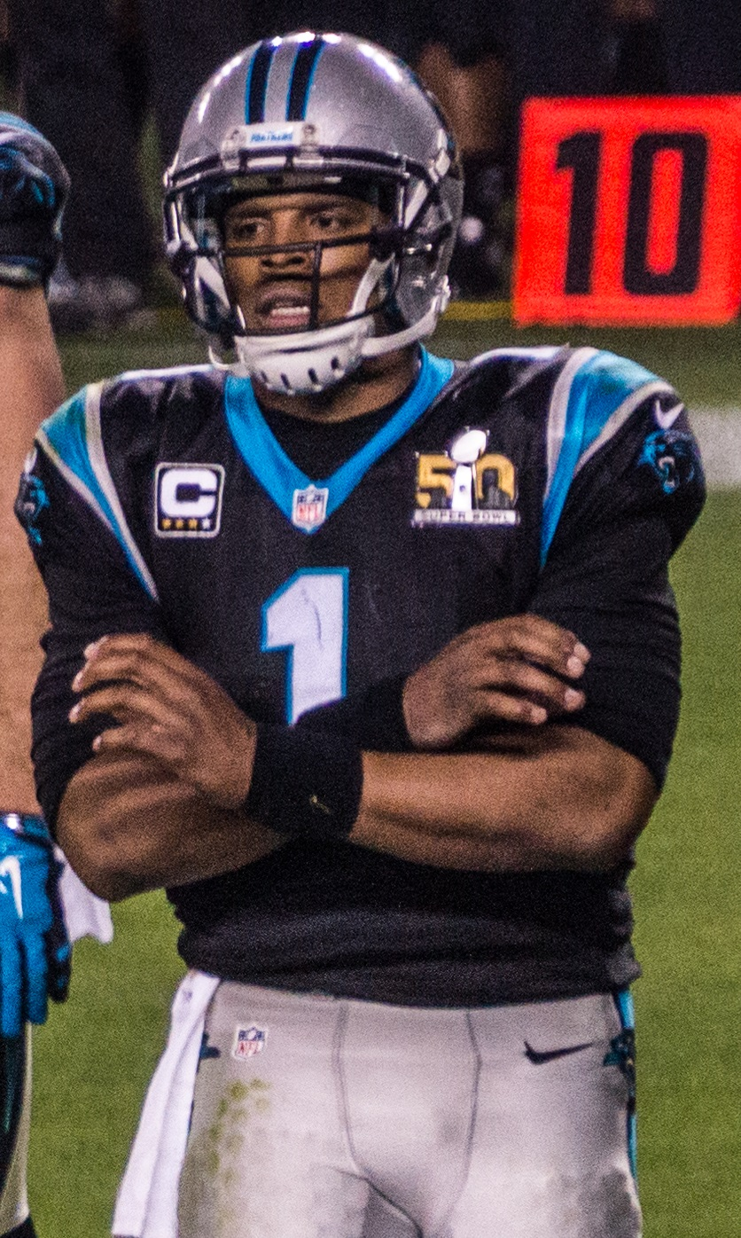 Cam Newton in Super Bowl 50